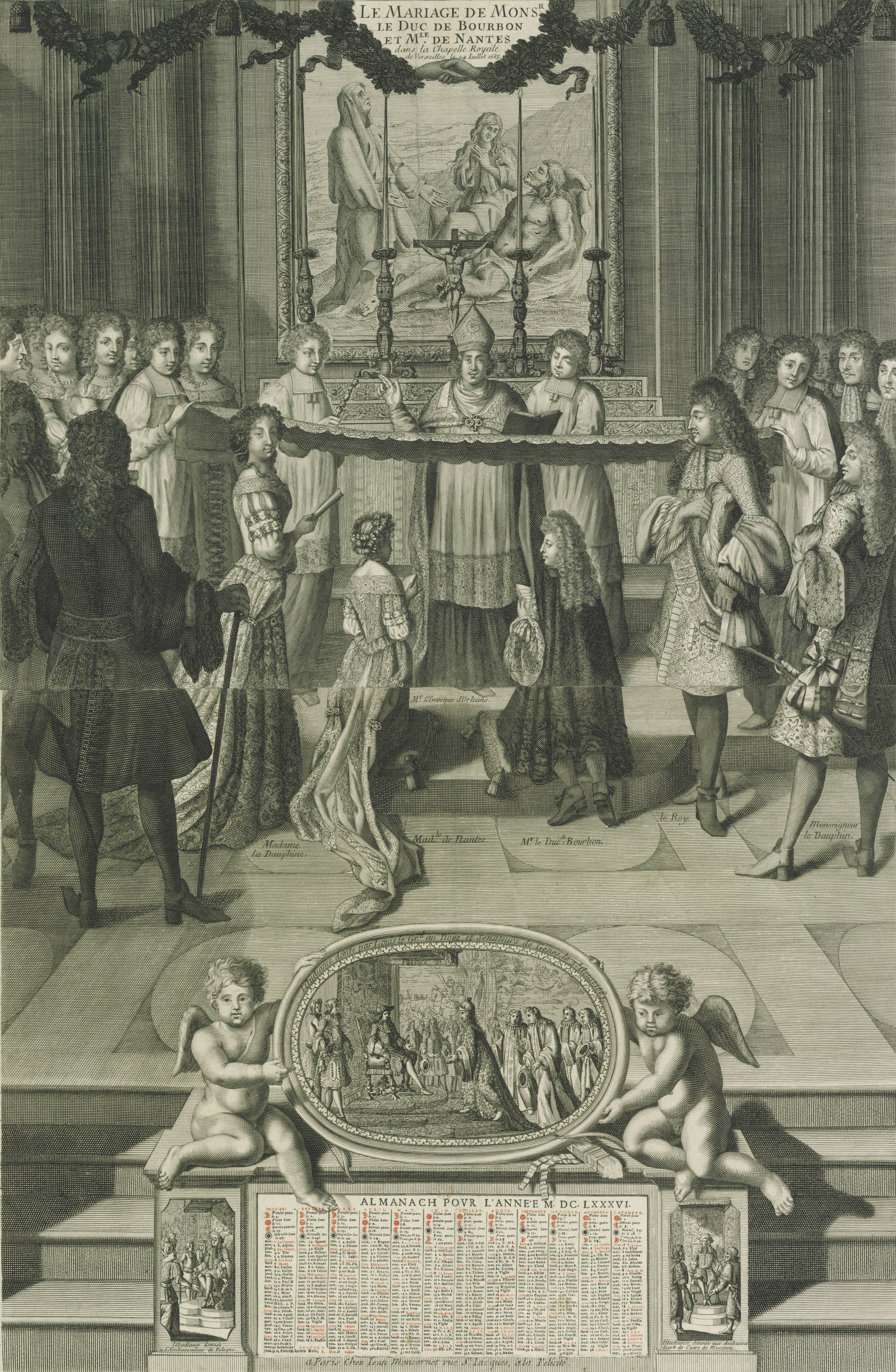 Marriage of Louis de Bourbon, duc de Bourbon to Mademoiselle de Nantes, daughter of Louis XIV and Madame de Montespan. Guests in the picture include the King himself, the Dauphin and his wife the dauphine. Anonymous engraving from the studio of Jean Moncornet due to be published in 1686. - Wedding ceremonie in the former royal chapel (1682-1710)